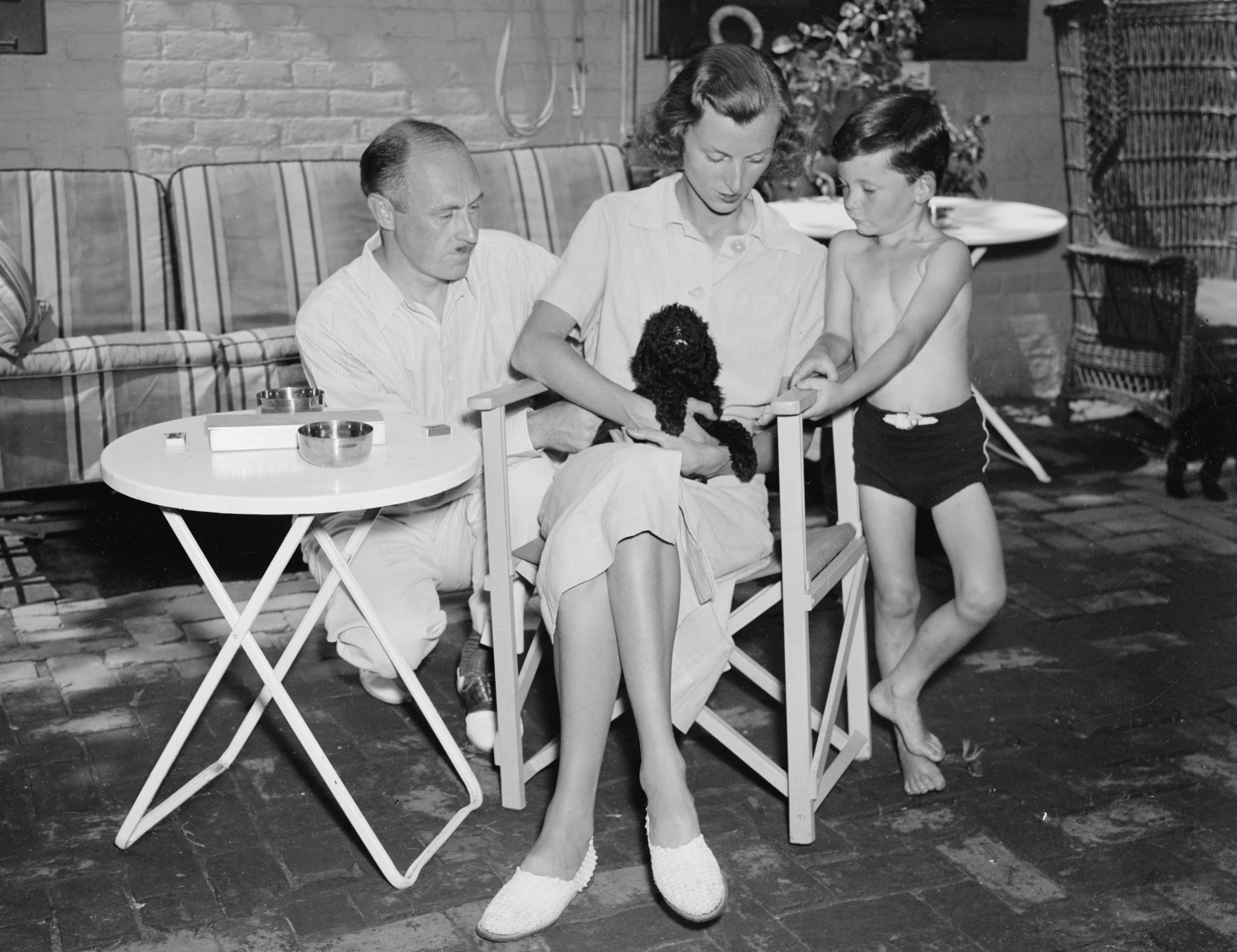 Title: Pearson's return home. Washington, D.C., Sept. 5. Drew Pearson, writer and co-author of the "Washington Merry Go Round" returned to his home here today with his wife's fiver year old son, Tyler Abell, "kidnapped" by Pearson from George Abell, also a writer and the former husband of the present Mrs. Pearson. Pearson took custody of the child on the British Isle of Sark, on the ground that Abell had taken the boy out of the United States without the mother's permission, assertedly contrary to court order, they are shown in the garden of the Pearson Home in Georgetown. Abstract/medium: 1 negative : glass ; 4 x 5 in. or smaller